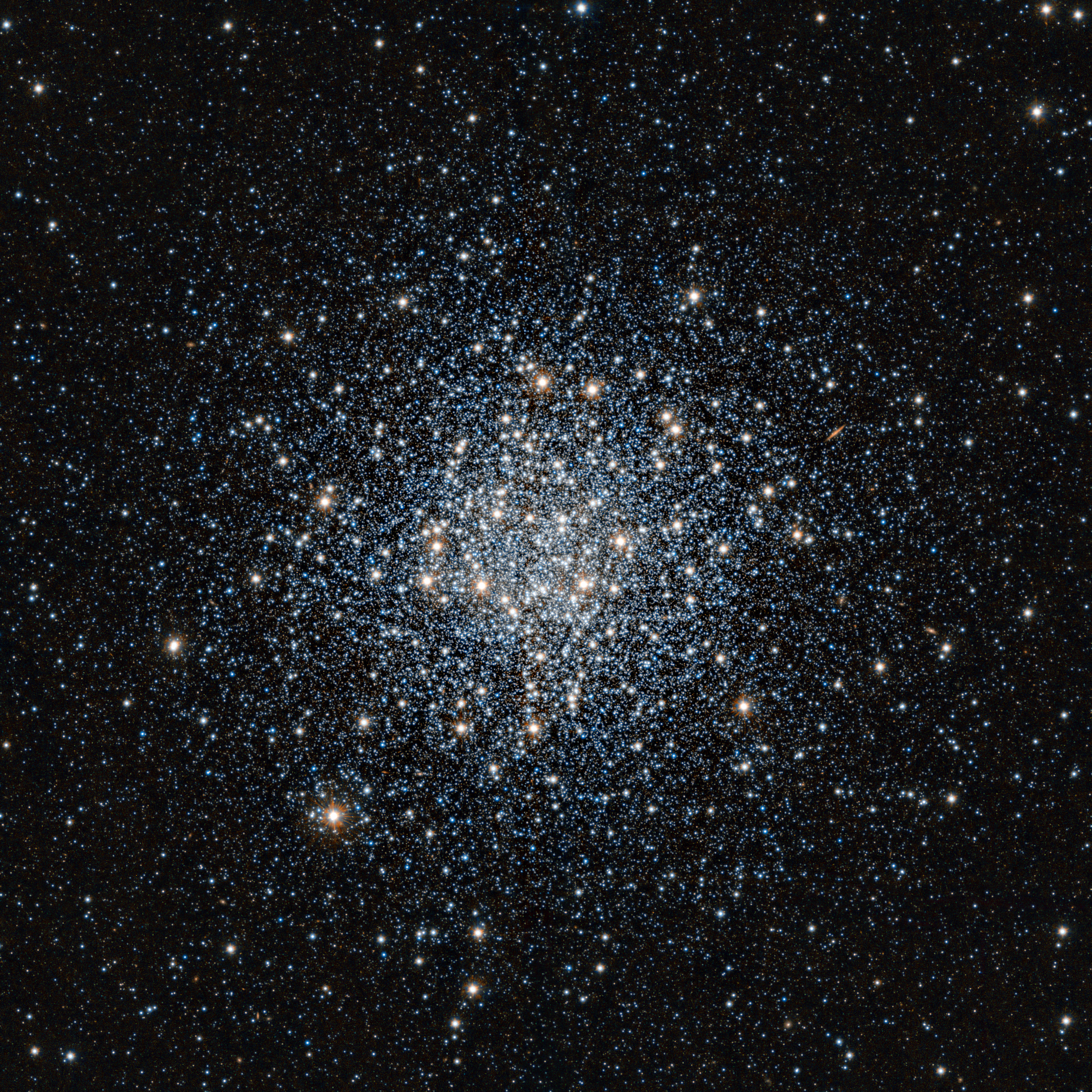 This striking view of the globular star cluster Messier 55 in the constellation of Sagittarius (The Archer) was obtained in infrared light with the VISTA survey telescope at ESO’s Paranal Observatory in Chile. This vast ball of ancient stars is located at a distance of about 17 000 light-years from Earth.